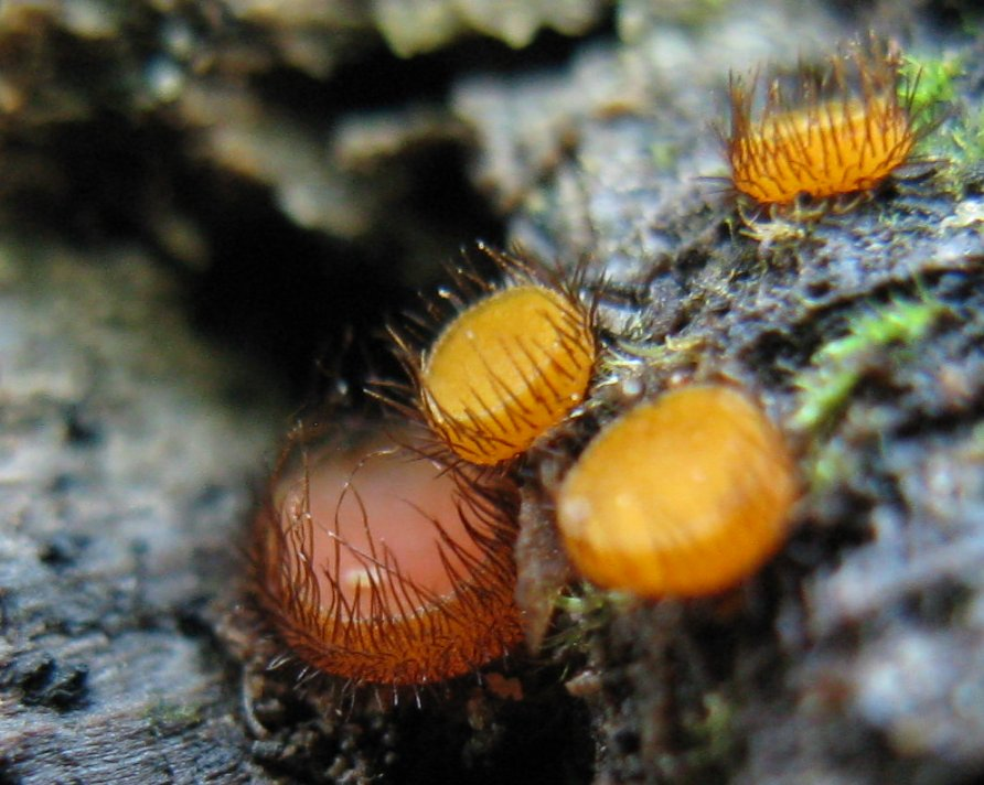 Scutellinia erinaceus Location: Norwich, Windsor Co., Vermont, USA Notes: Scutellinia erinaceusThe orange Eyelash cup is S. scutellata. It's the smaller, more yellowish cup, that I believe is S. erinaceus.